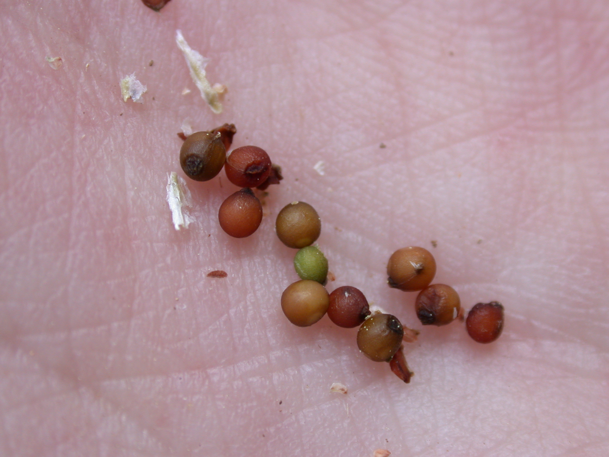 Seeds of Romulea phoenicia Mouterde, Mount Carmel, Israel, March 28, 2008.